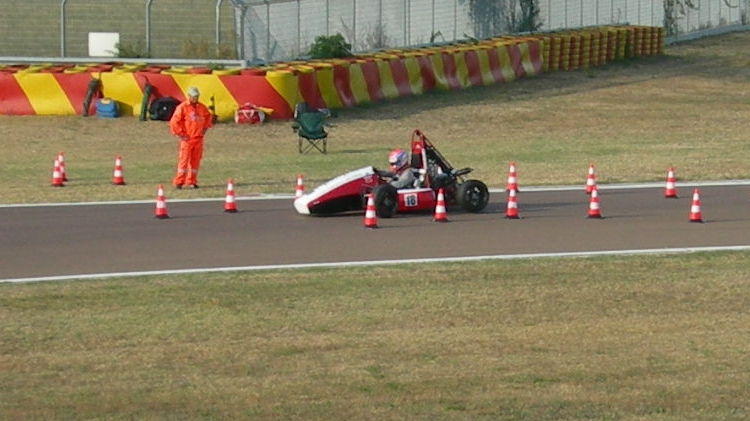 ET1 at Fiorano